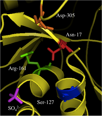 Pymol image of MDD active site